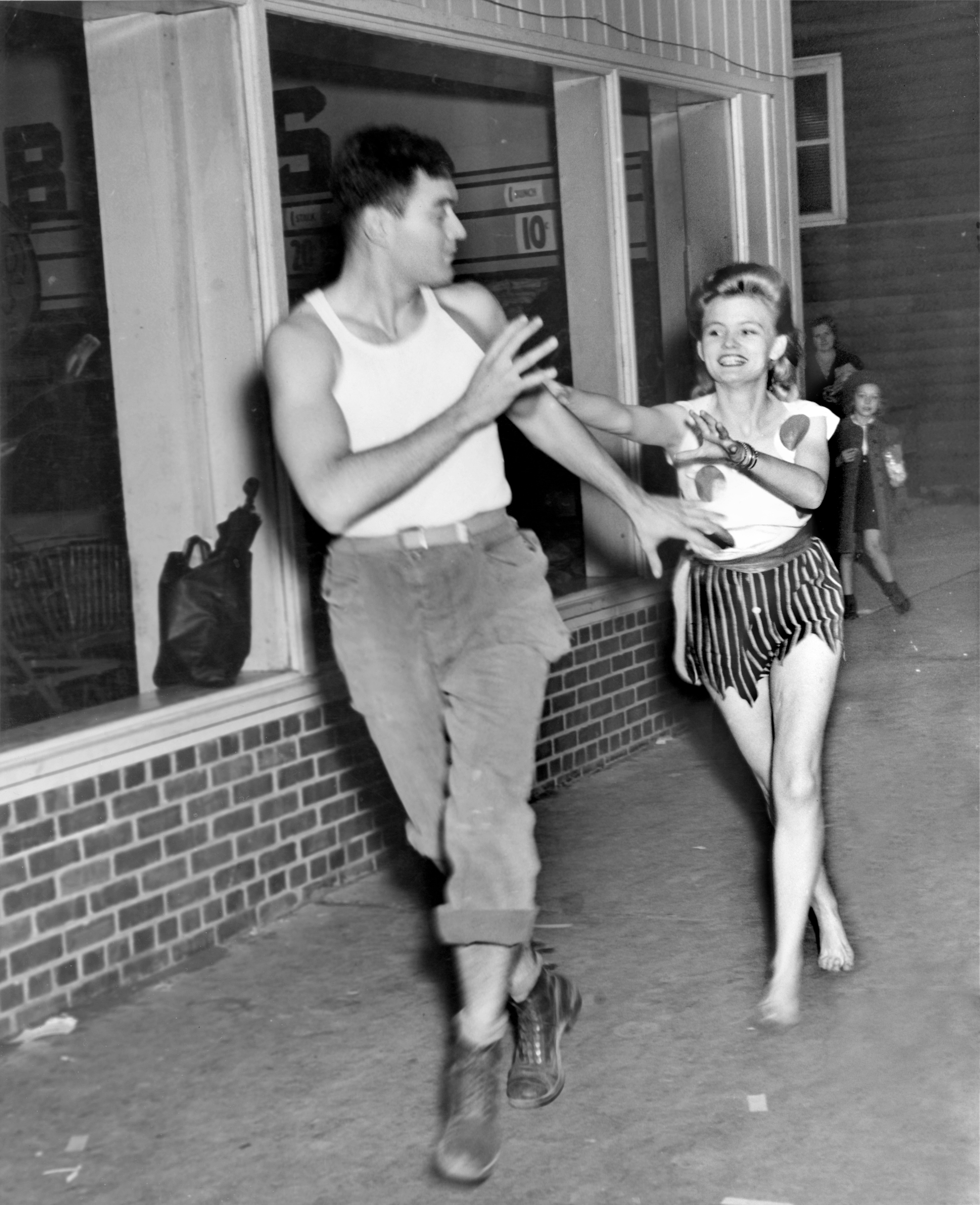 Pro141 DOE photo Ed Westcott Sadie Hawkins Day 1944 Oak Ridge Tennessee